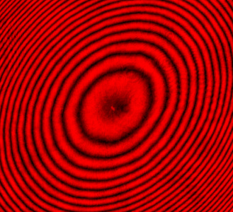 "Newton’s rings" interference pattern created by a plano-convex lens illuminated by 650nm red laser light, photographed using a low-power microscope. The plano-convex was tilted at approximately 45 degrees to the optical axis so the circular rings appear as ellipses. This image has been digitally sharpened.